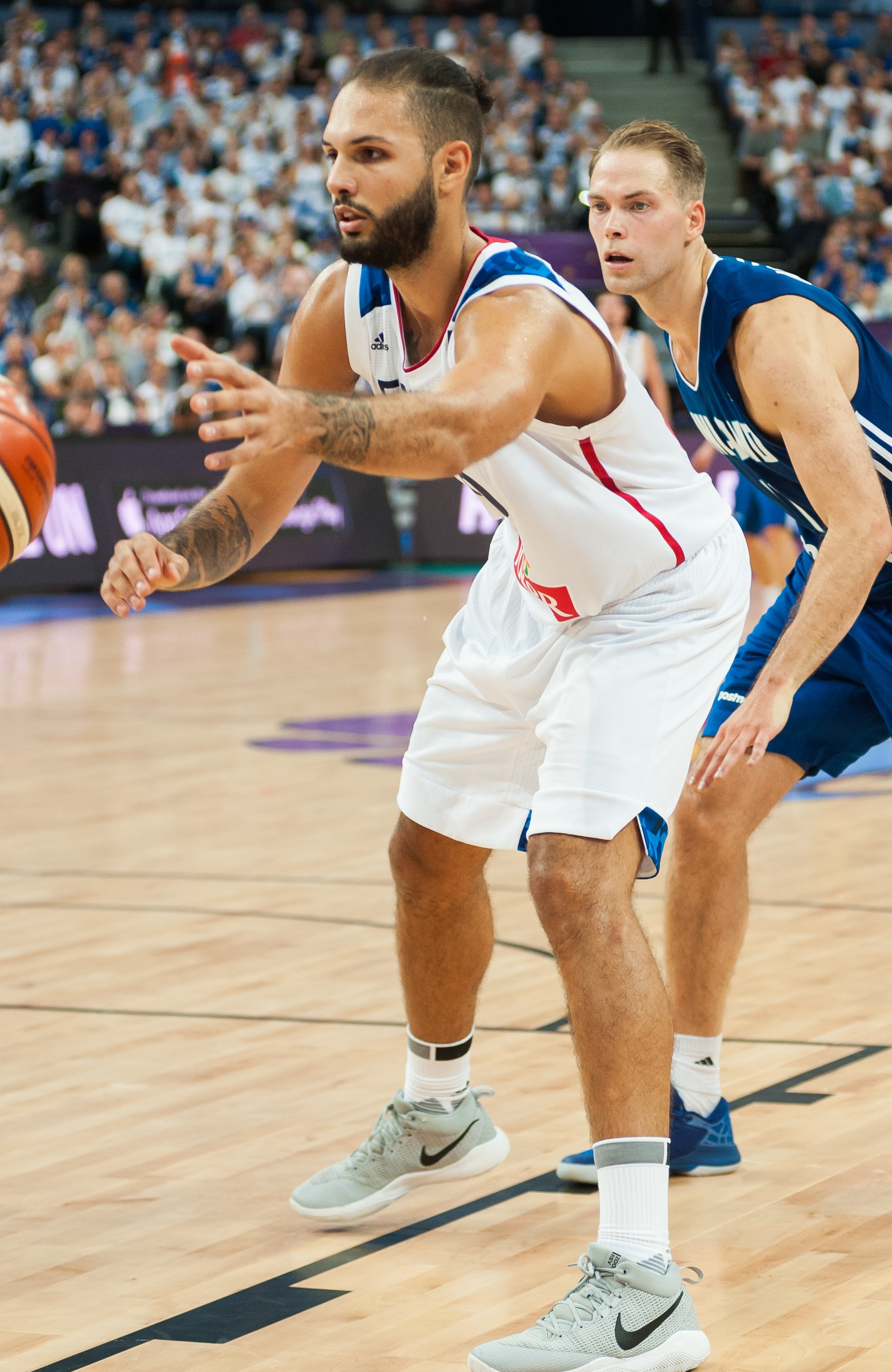 EuroBasket 2017 Group A game between France and Finland at Hartwall Arena in Helsinki, Finland.